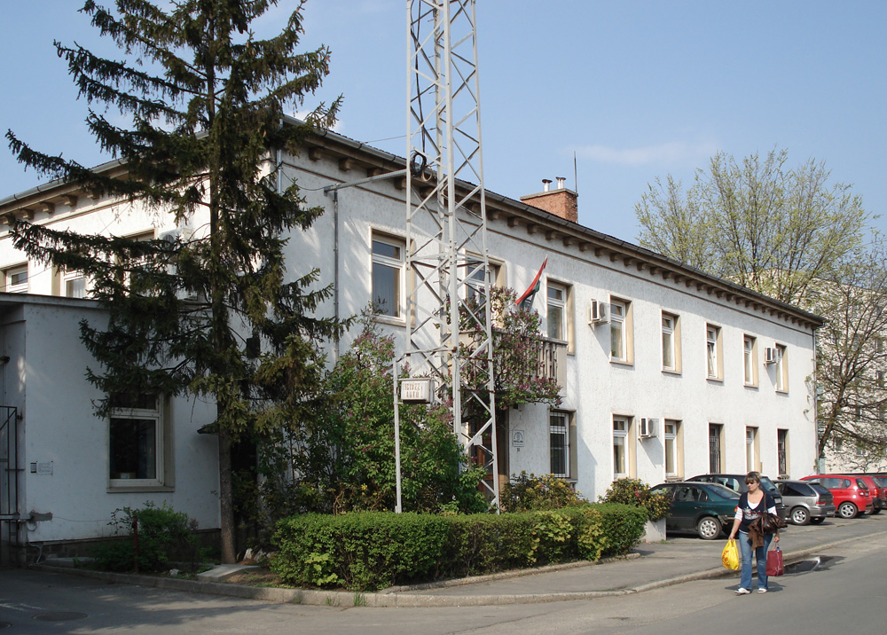 Ambulance station in Miskolc, Hungary